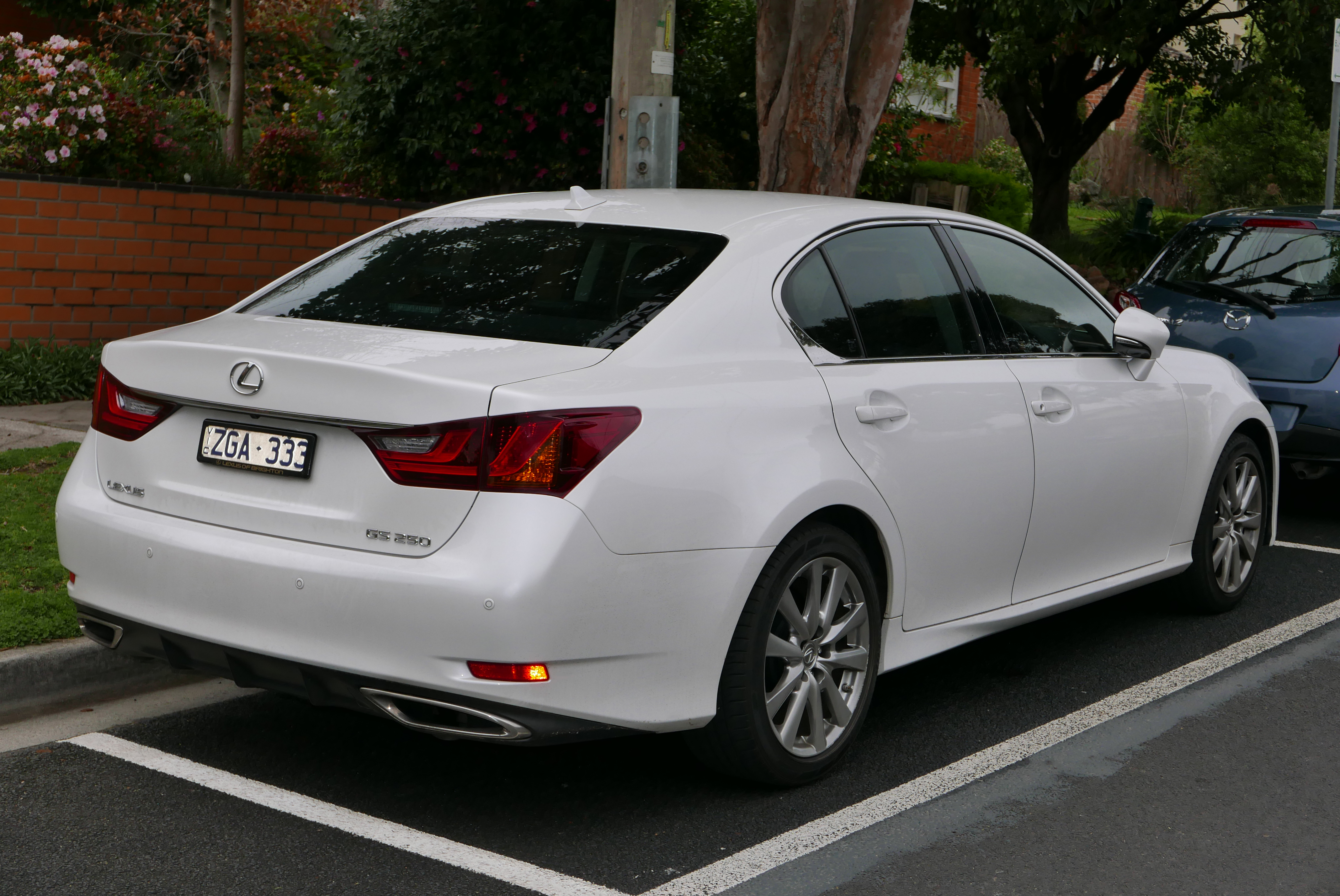 2012 Lexus GS 250 (GRL11R) Luxury sedan. Photographed in Doncaster East, Victoria, Australia. Vehicle registration enquiry resultsJurisdictionVictoriaRegistrationZGA333Chassis codeJTHBF1BL005004264Engine code4GR0844759Compliance date2012-07Year of manufacture2012